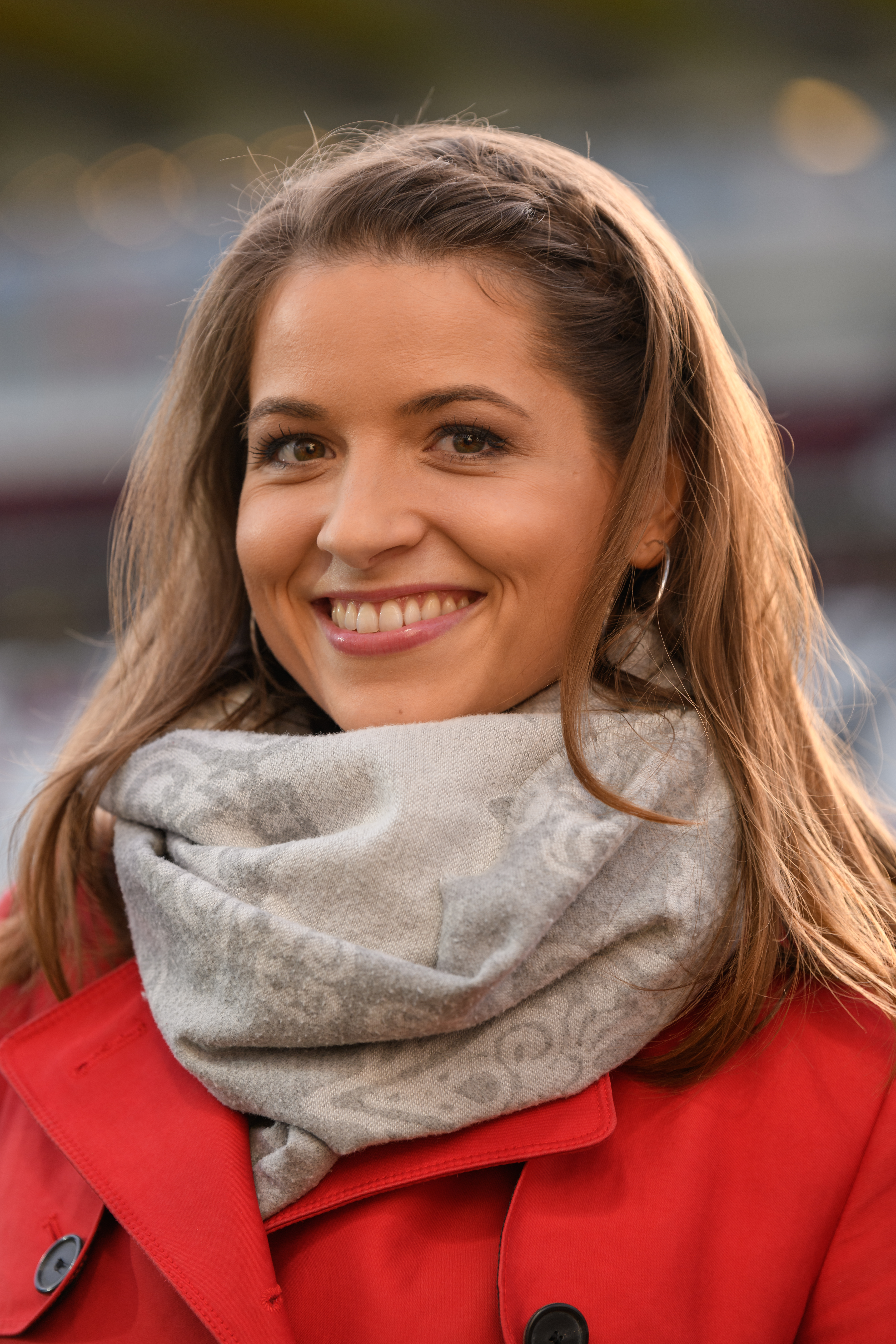 FIFA Women's Football World Cup Qualification 2019, Austria vs. Serbia 2018-04-05. Picture shows Kristina Inhof